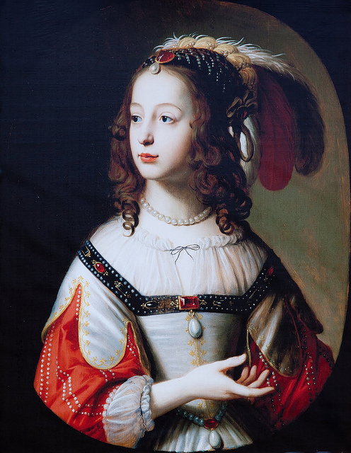 Sophie of the Palatinate, electress of Hanover, in her younger days